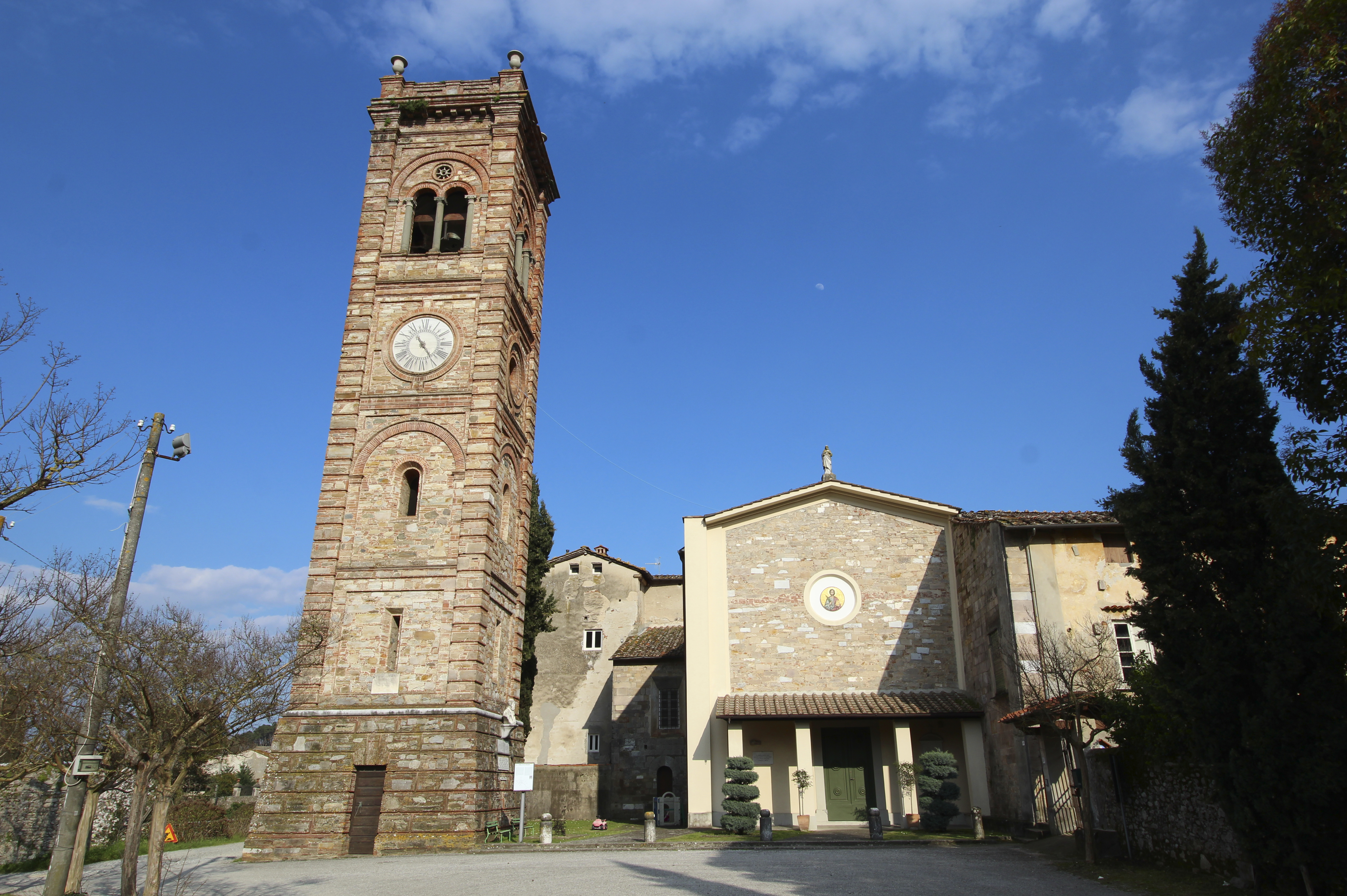 Church San Bartolomeo (before San Salvatore), Badia di Cantignano, hamlet of Capannori, Province of Lucca, Tuscany, Italy